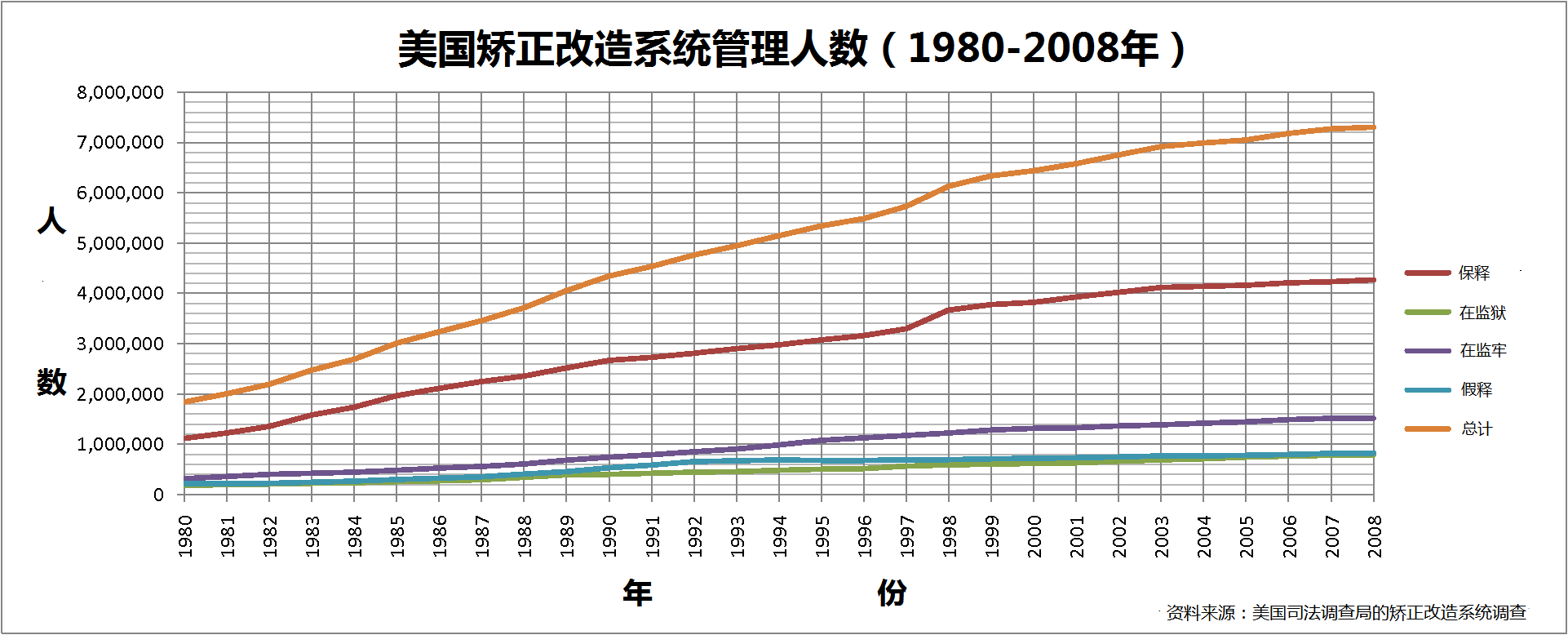 A graph that shows the Correctional populations in the United States from 1980 to 2008. It shows probation, jail, prison, and parole correlations. Simplified Chinese version